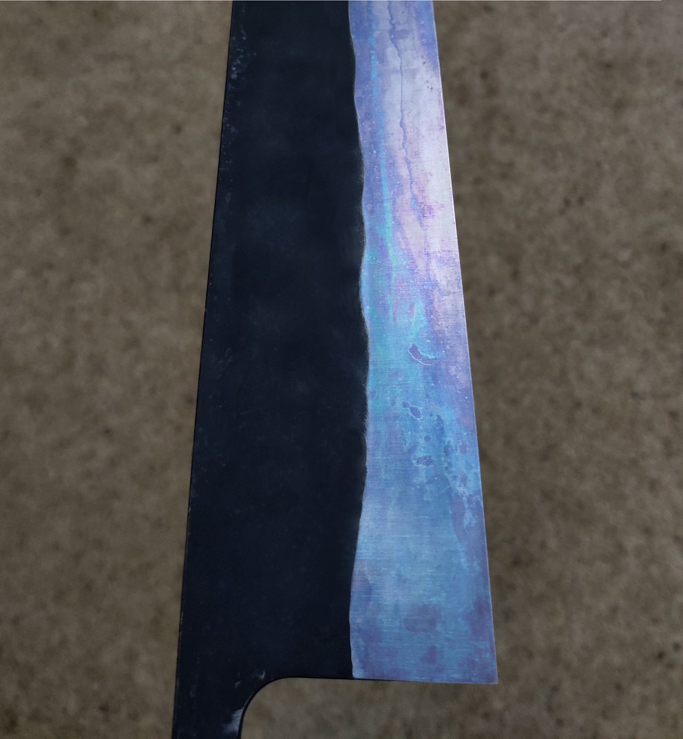 Non-uniform nekonoshoben patination due to insufficient circulation. Pulled after 3 days at room temperature.